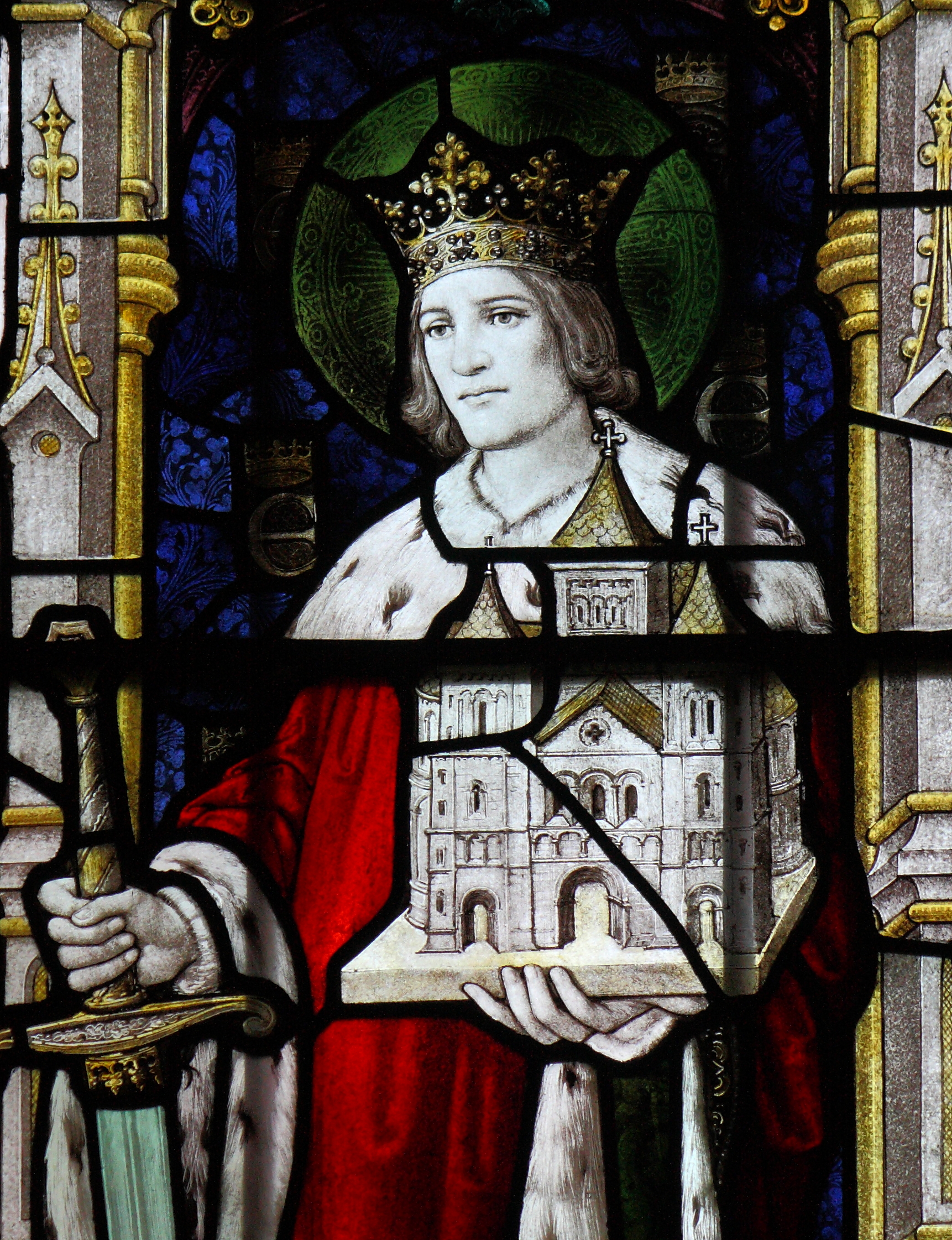 Saint King Edwin of Northumbria, St Mary, Sledmere, East Riding of Yorkshire, England.